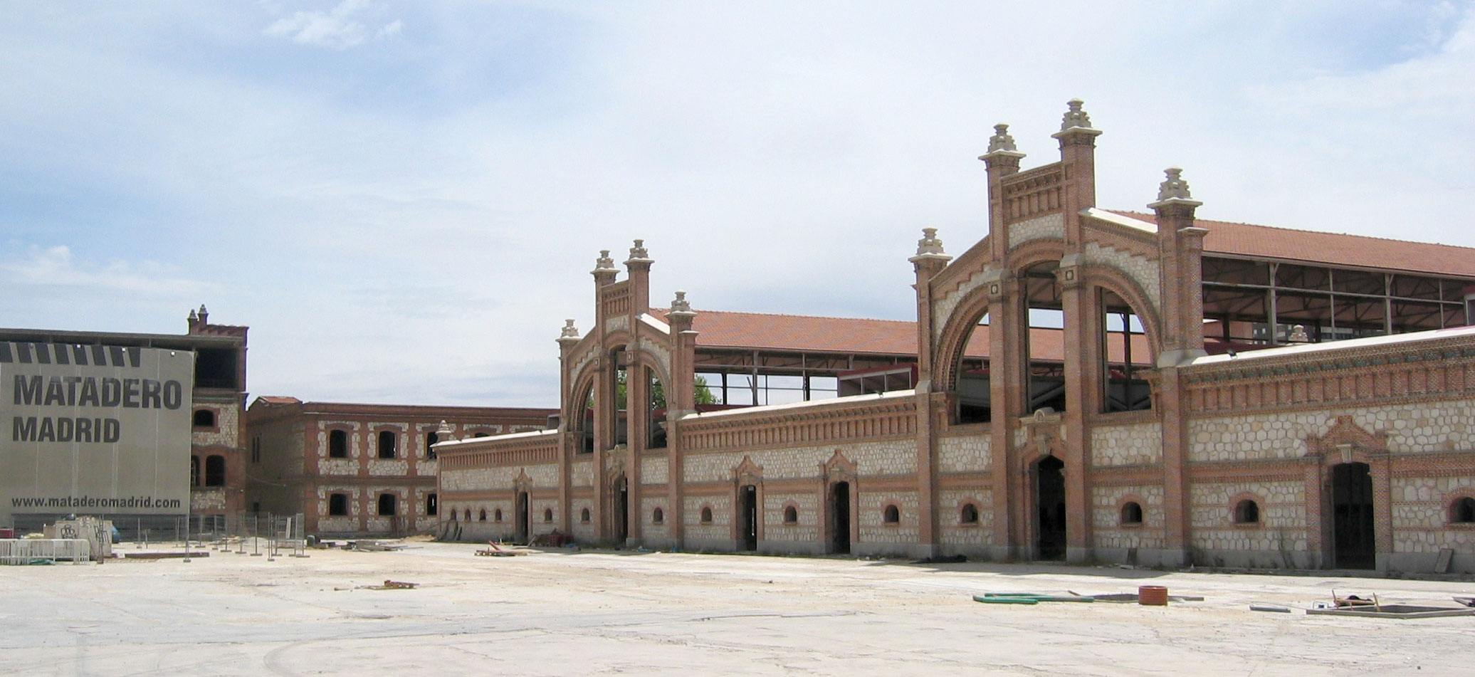 Former slaughterhouse is being transformed into Matadero Madrid culture centre.